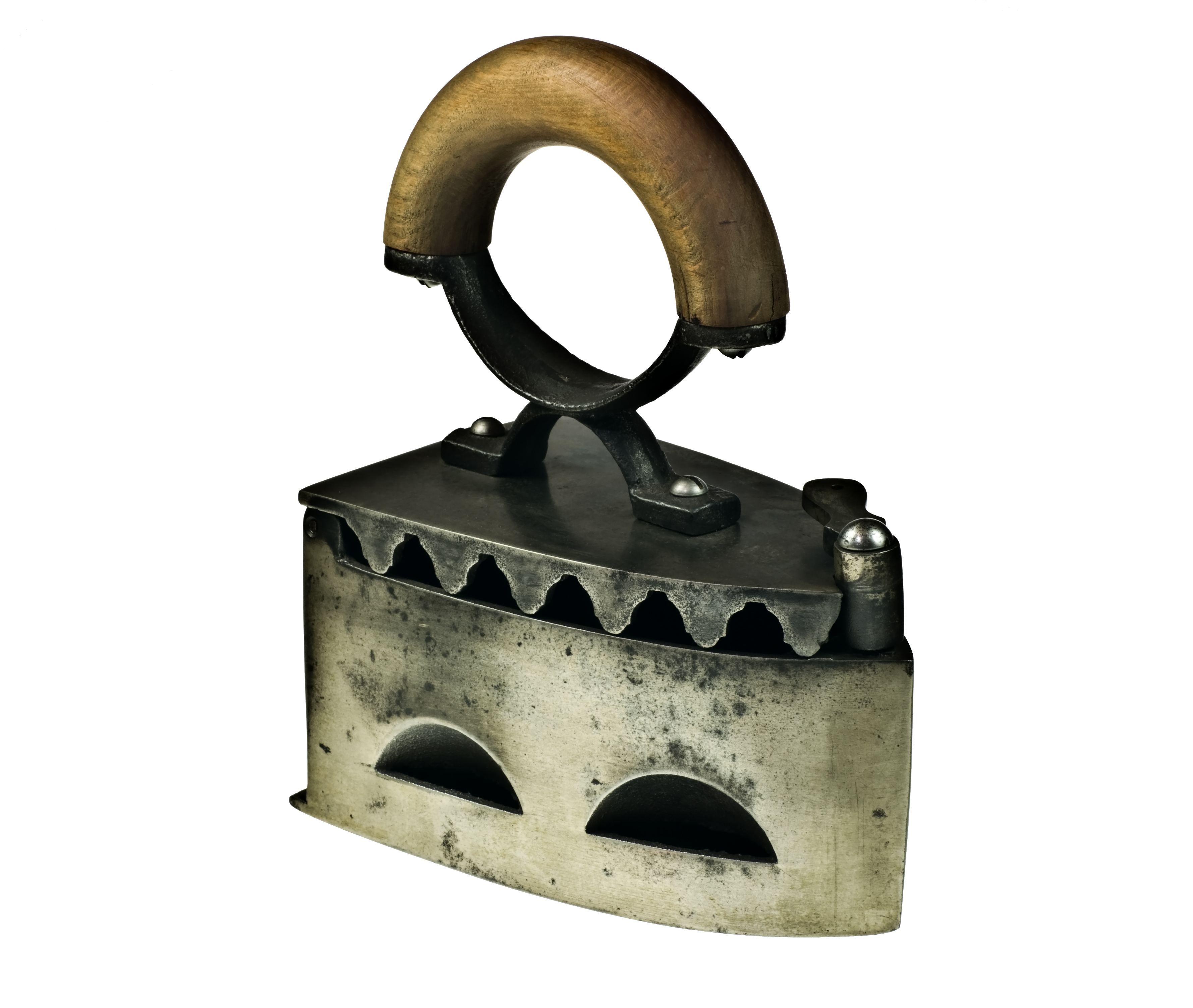 Charcoal iron